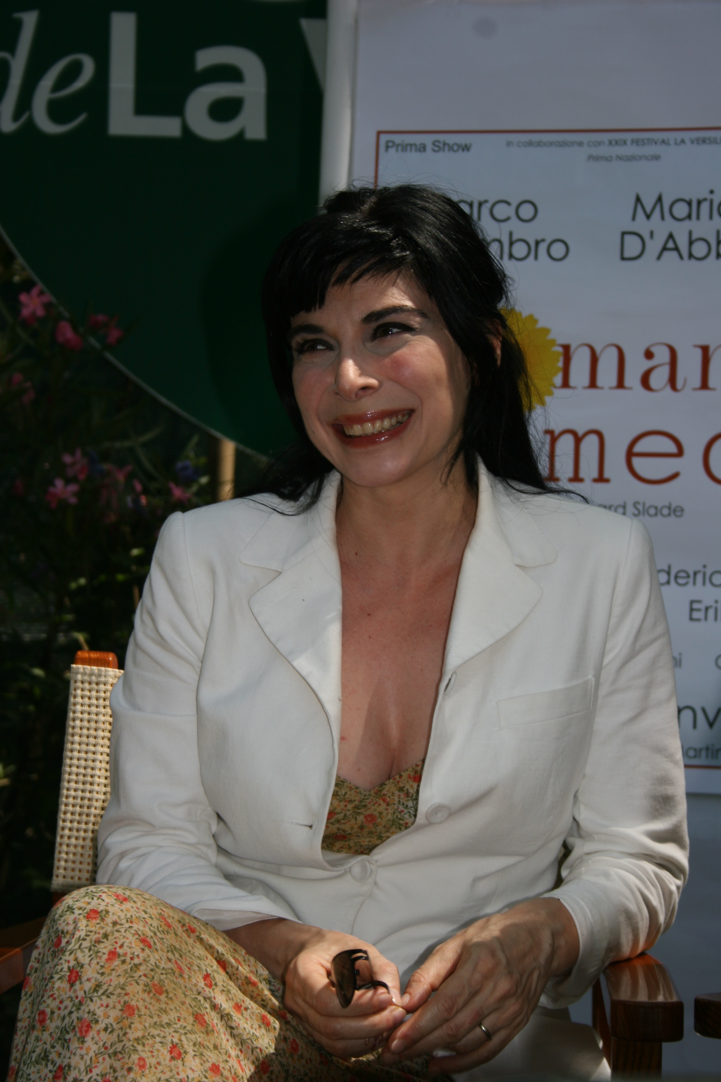 Mariangela D'Abbraccio